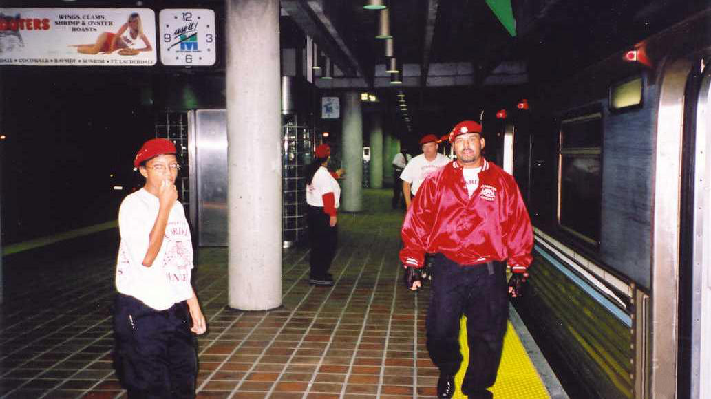 Guardian Angels in Miami (Metromover?)